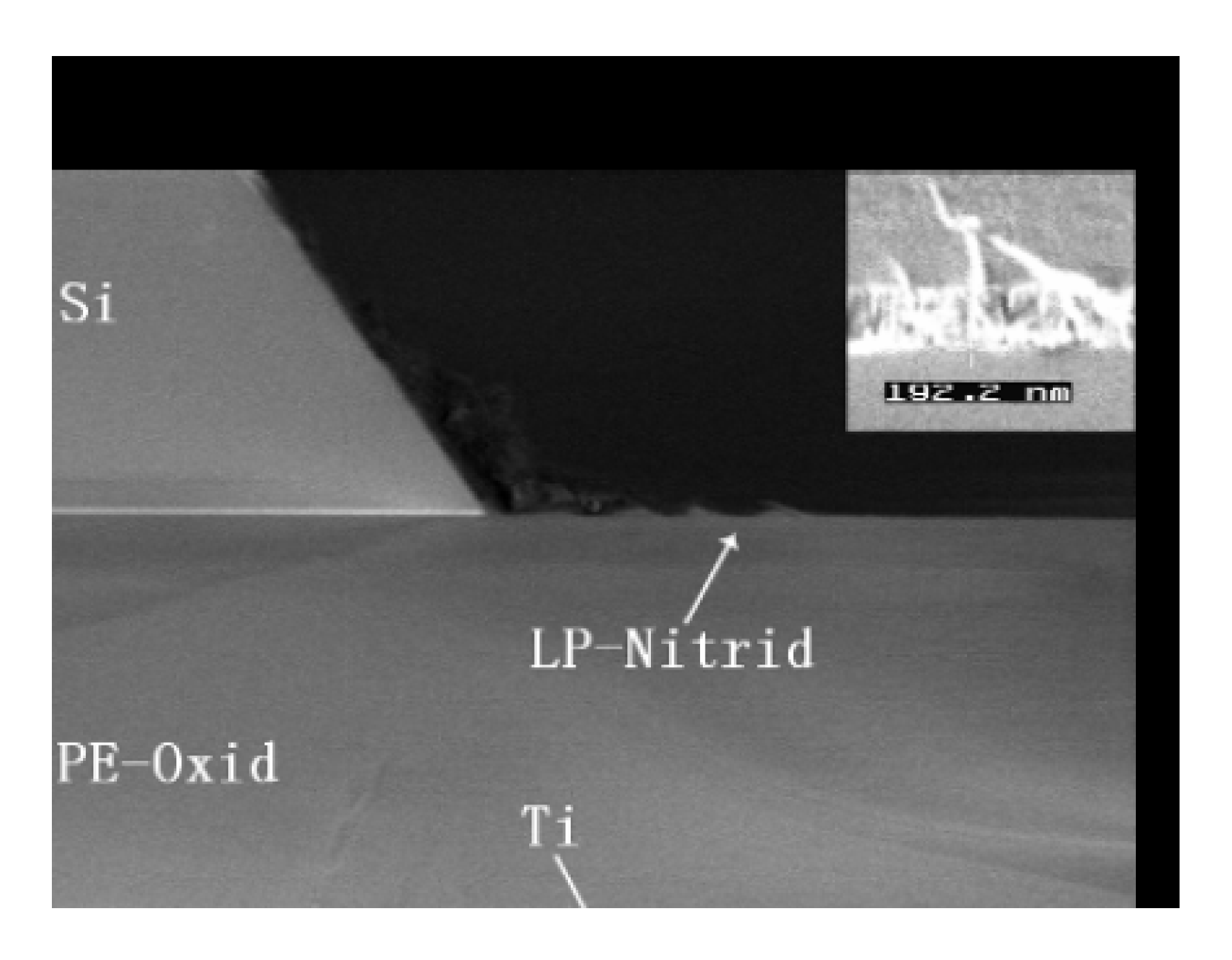 Ti-Si bonding interface of a thermo compression wafer bond.